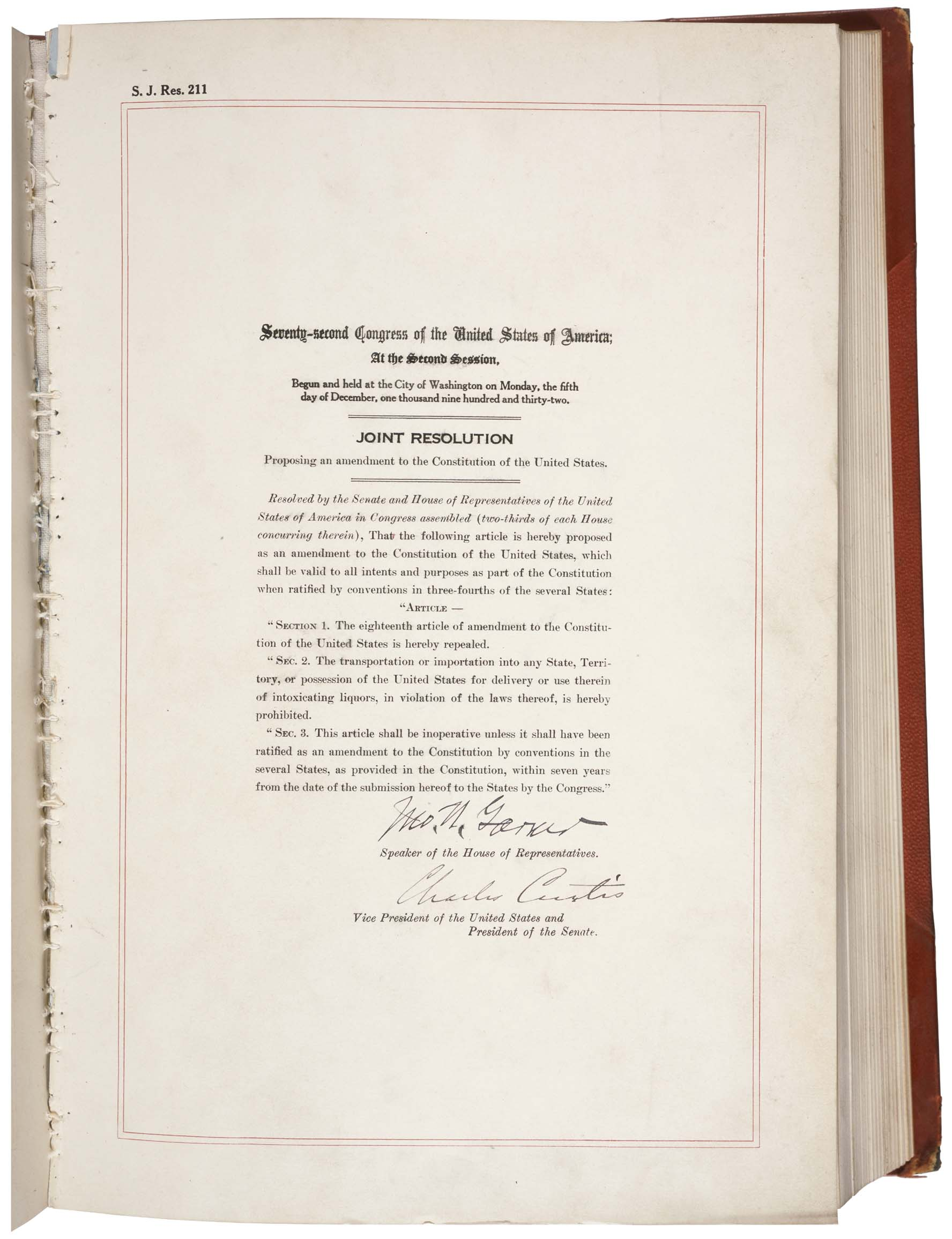 Joint Resolution Proposing the Twenty-first Amendment to the United States Constitution.